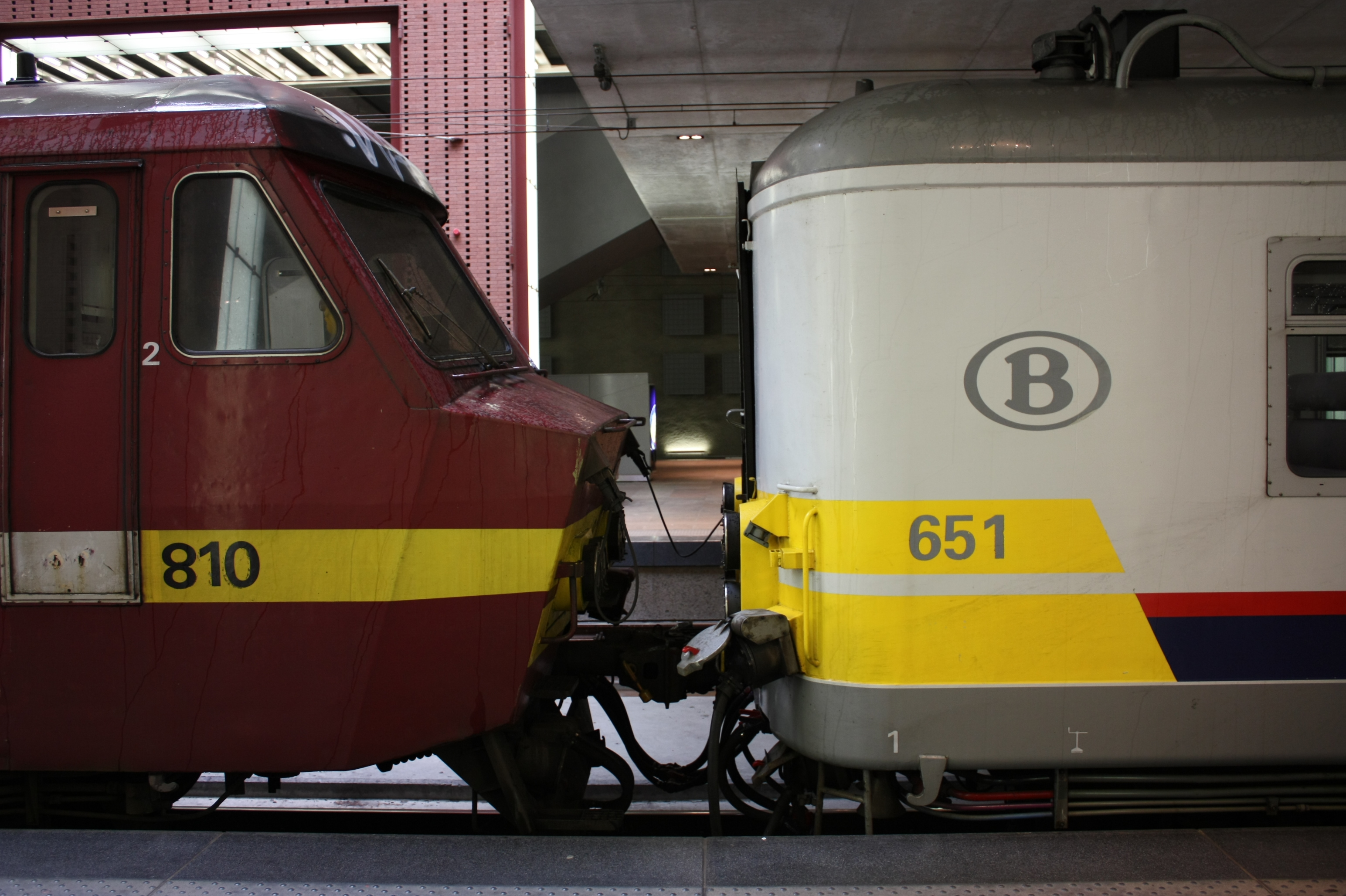 Couplage between a AM75 series and "klassiek motorstel"